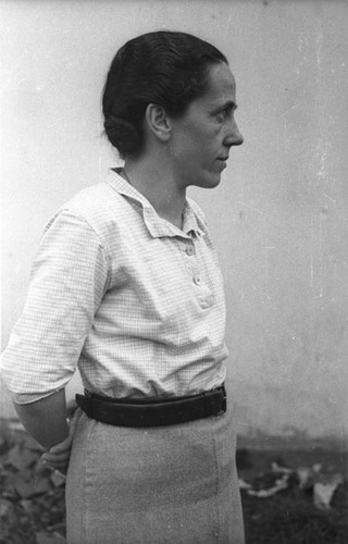 Schoolteacher Elbira Zipitria, one of the founders of the ikastolas, was a Basque nationalist who promoted use of the Basque language and was committed to equal rights among men and women. This 1939 photo was taken in Sare, Labourd after Zipitria had fled there to escape the Spanish Civil War in 1936.